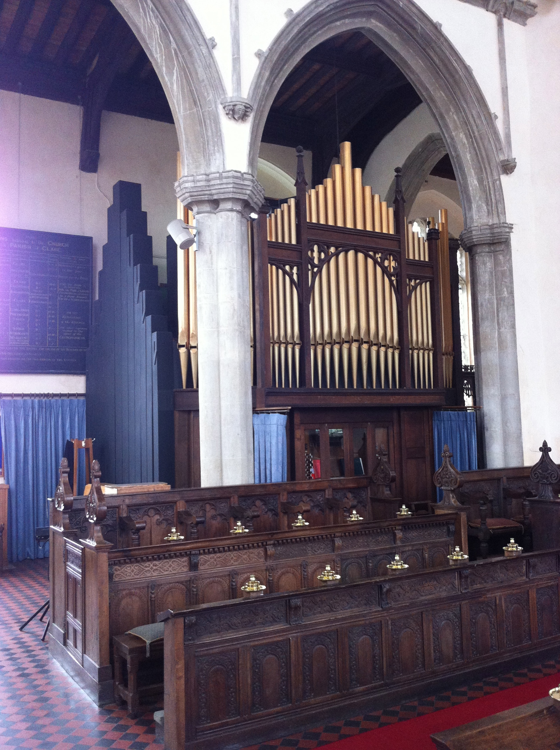 St Peter and Paul's Church, Clare, Suffolk